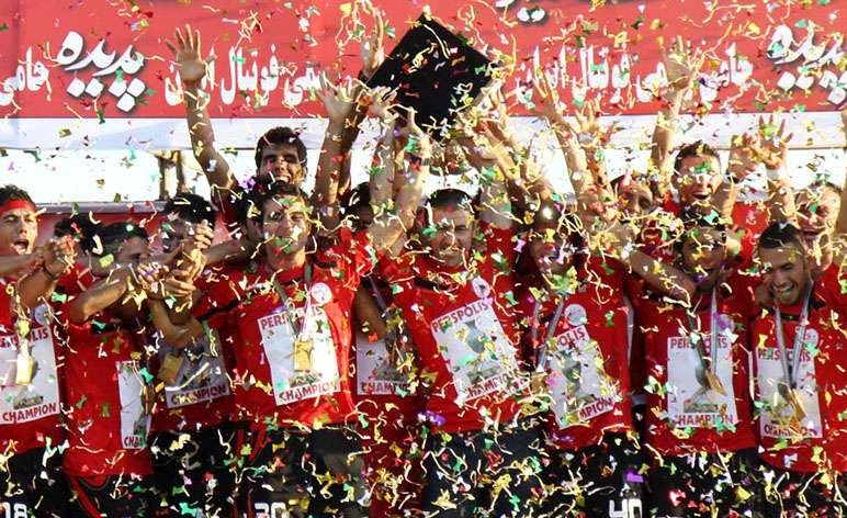 Persepolis F.C. 2011 Hazfi Cup Winner